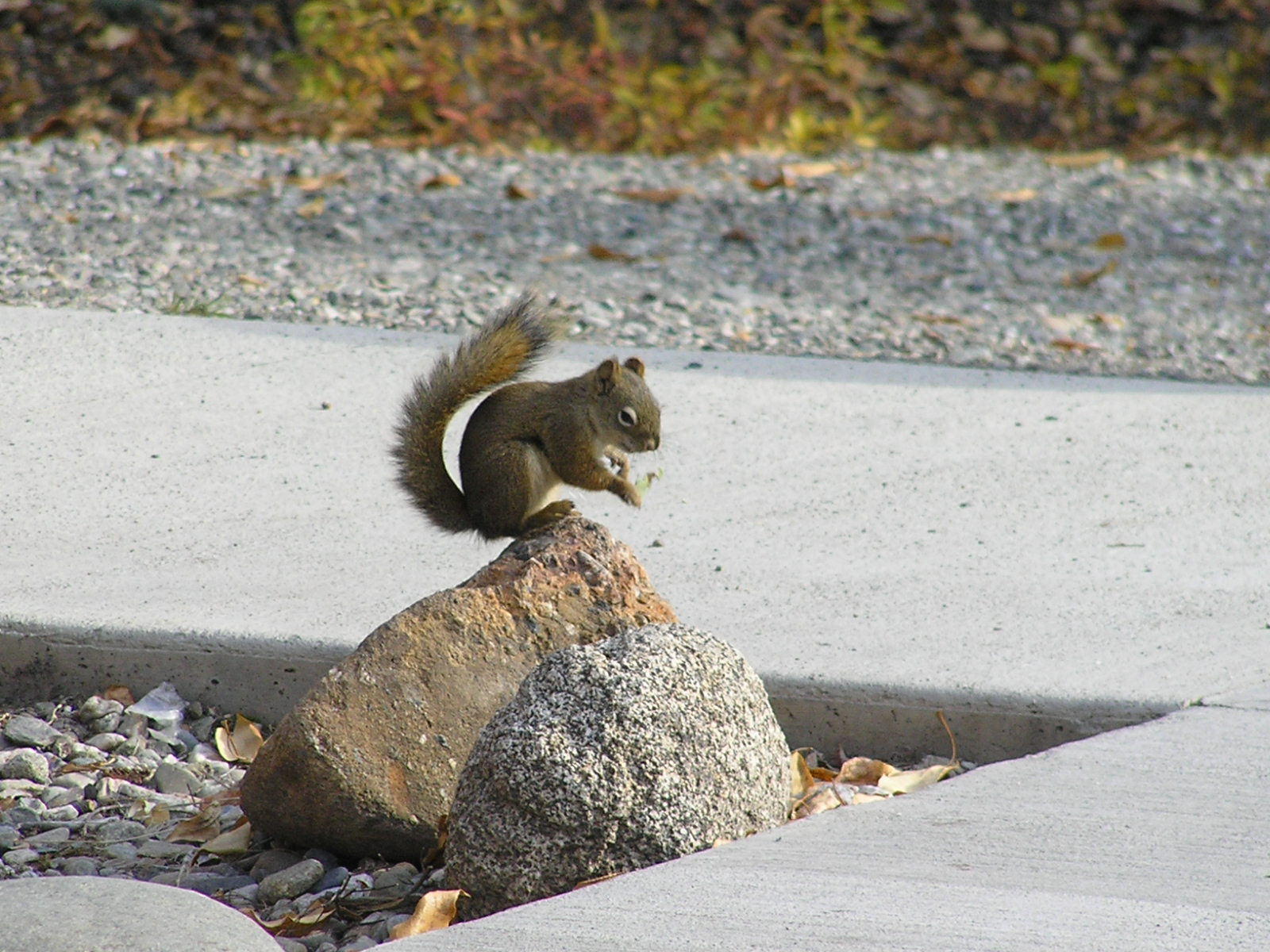 Squirrel in Alaska